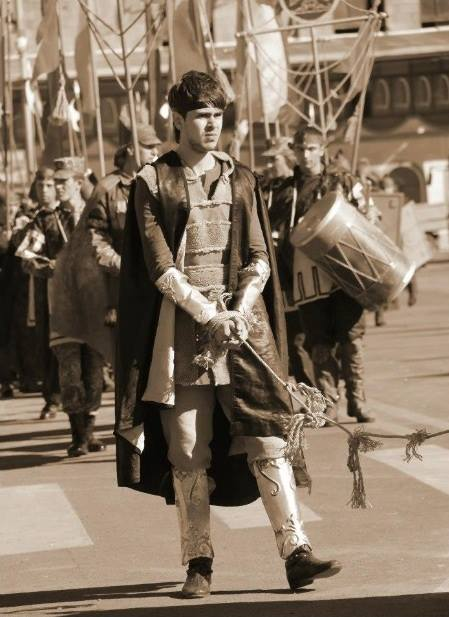 Davit Gharibyan, Erebuni Yerevan 2012